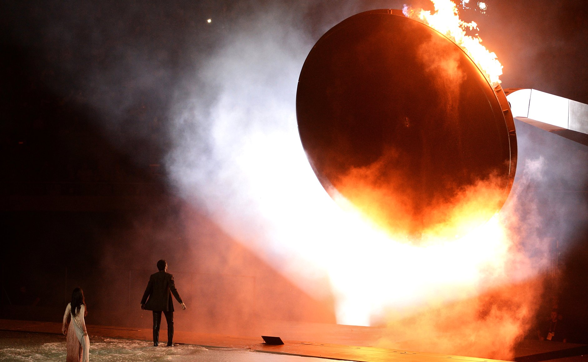 The opening ceremony of the first European games